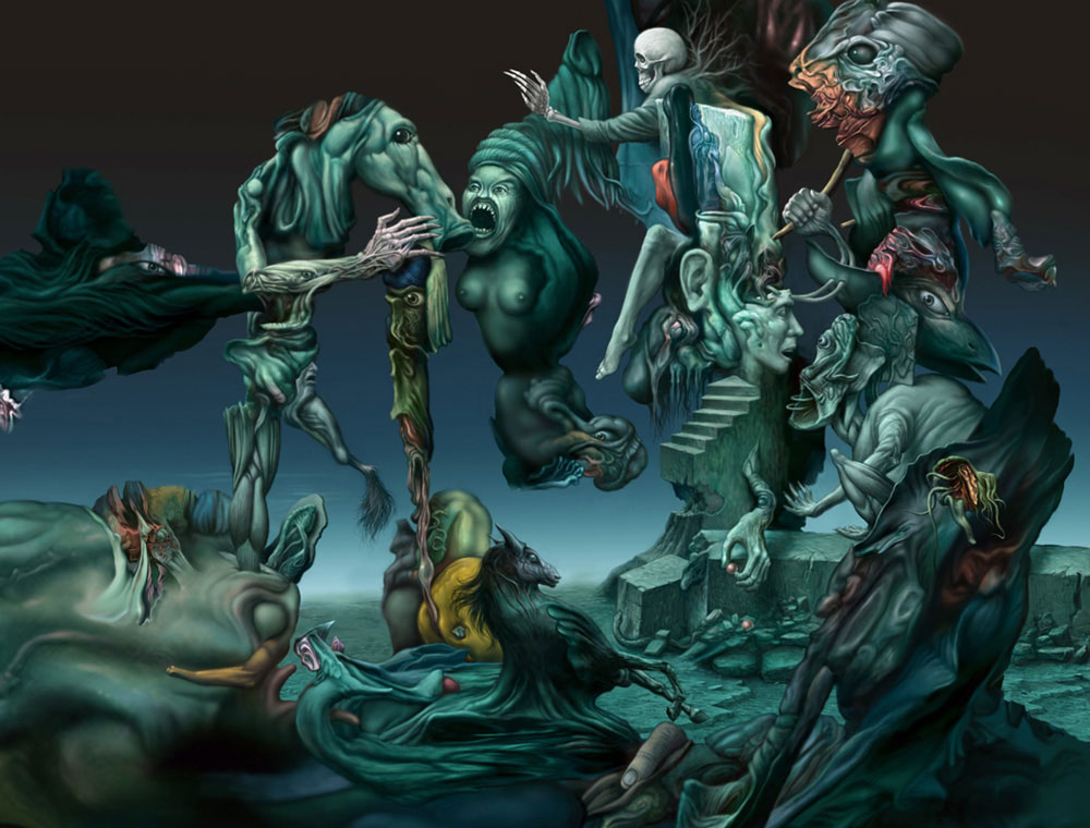 Search 02, digital painting by Bernard Dumaine from: licensed under: Free Art License